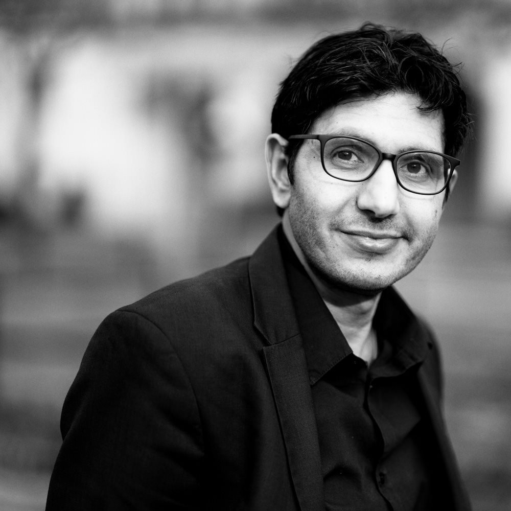 An image of Alex Gil.